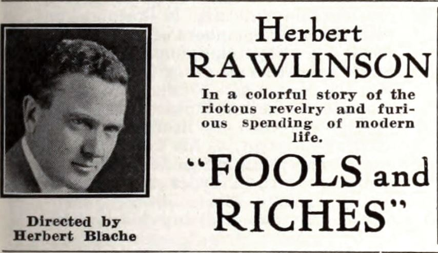 Advertisement for the American drama film Fools and Riches (1923) with Herbert Rawlinson, on page 33 of the August 4, 1923 Universal Weekly.